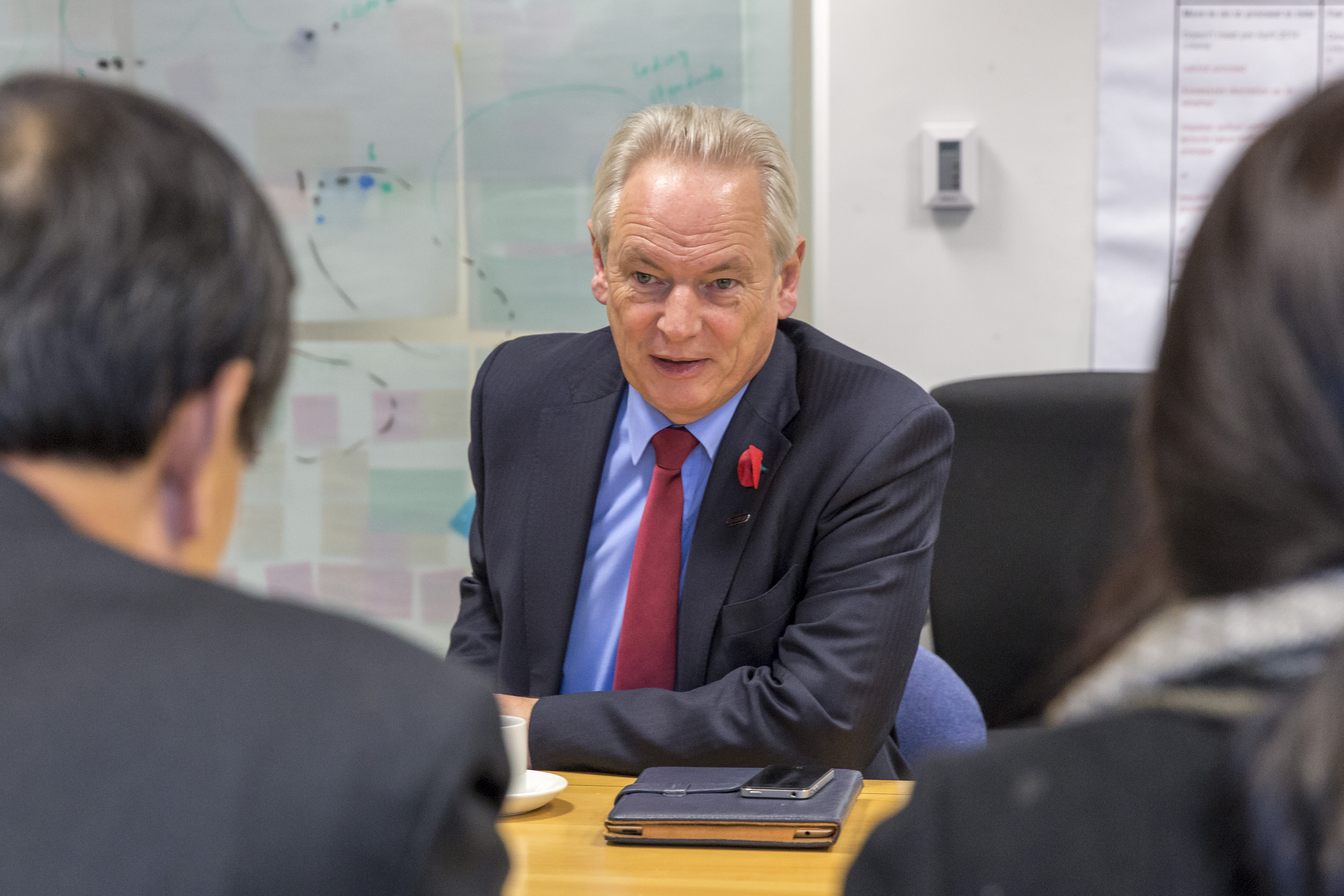 The RT Hon Francis Maude, Minister for the Cabinet Office.